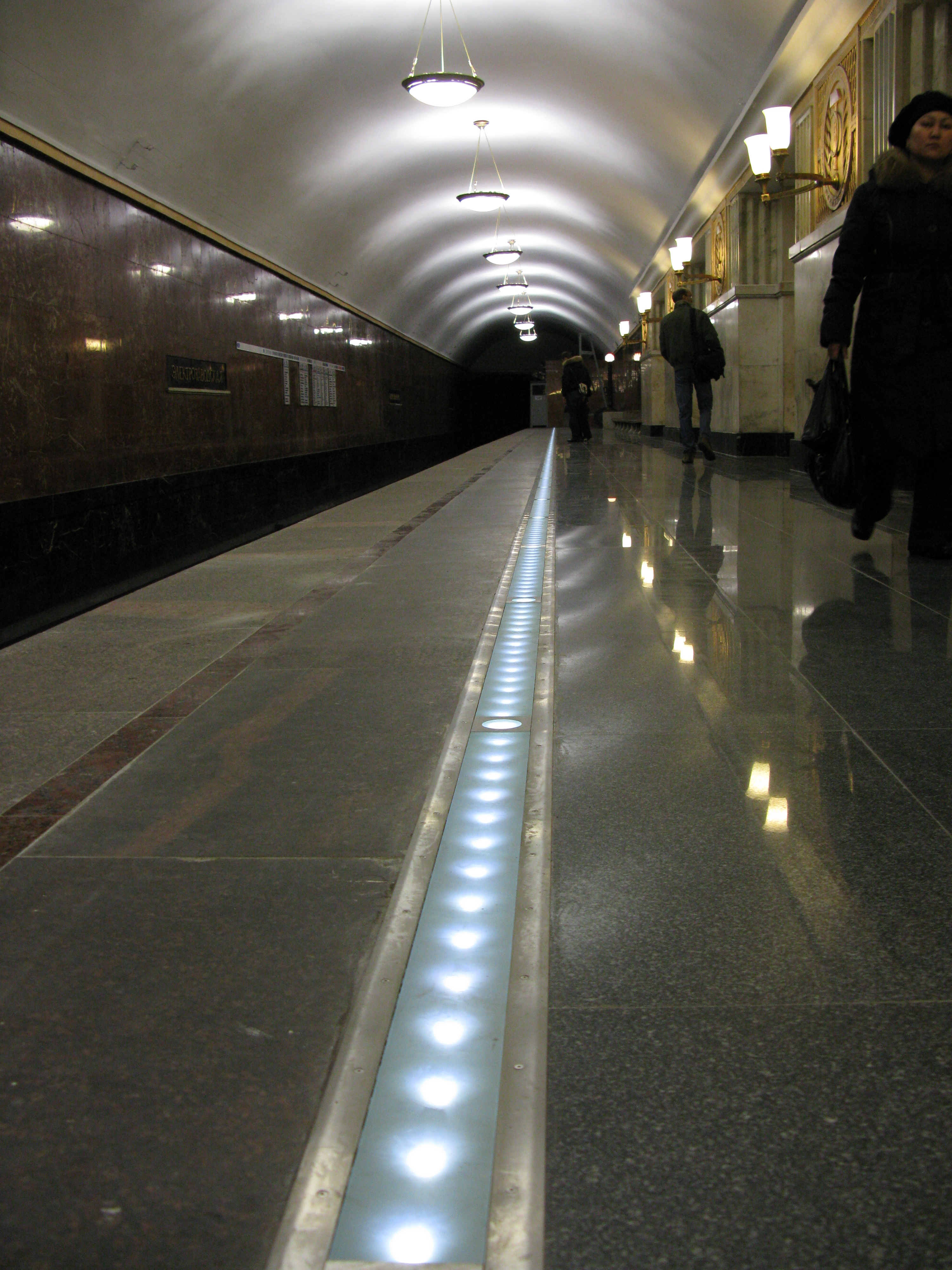 Elektrozavodskaya station of Moscow Metro after reconstruction